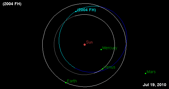 Orbits of 2004 FH and Venus & Earth.